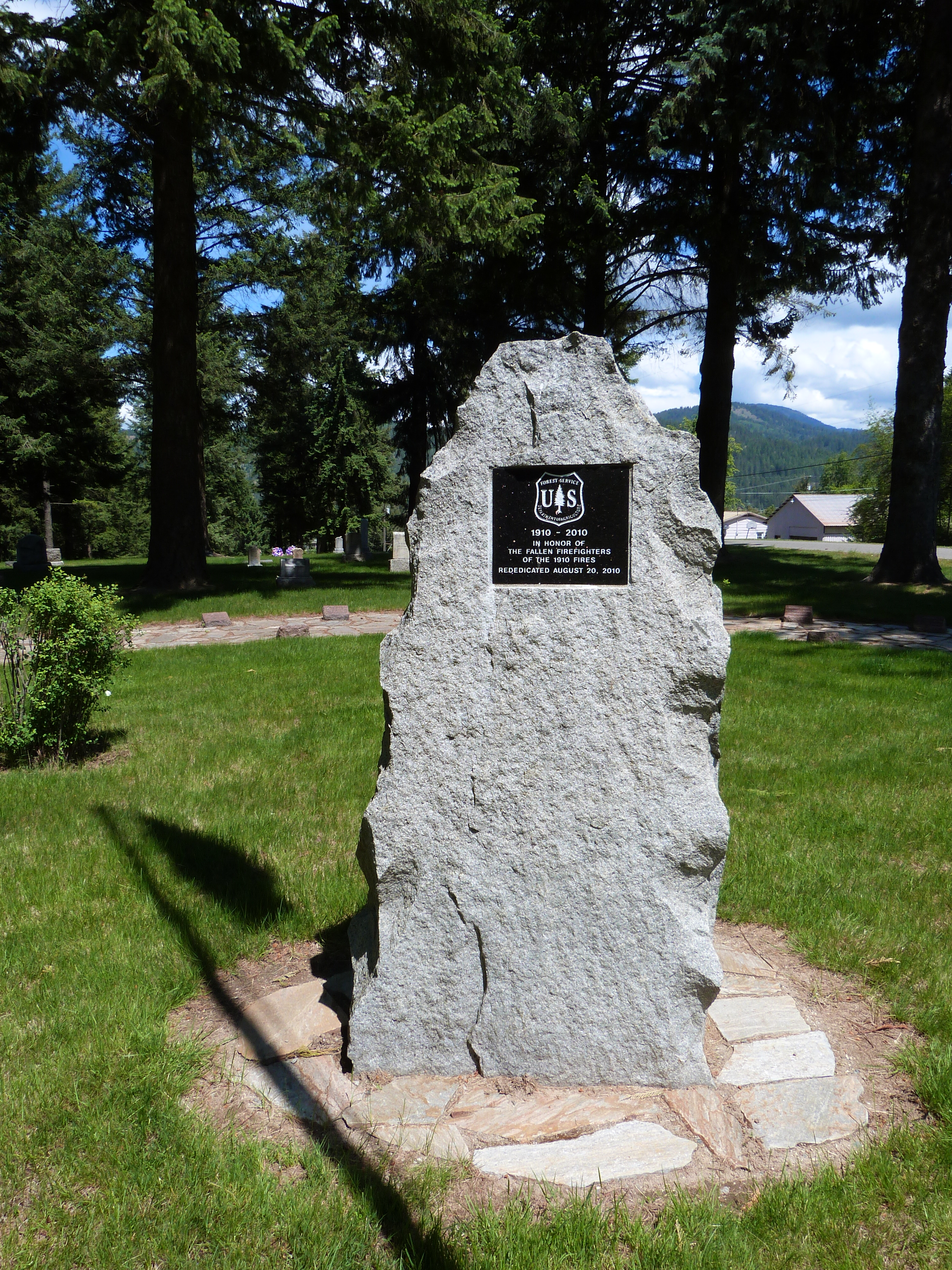 The grave and memorial to firefighters who died in the Great Fire of 1910 on August 20, 1910, located in Woodlawn Cemetery, St. Maries, Idaho, United States, is listed on the US National Register of Historic Places. The inscription reads: 1910 – 2010 IN HONOR OF THE FALLEN FIREFIGHTERS OF THE 1910 FIRES REDEDICATED AUGUST 20, 2010